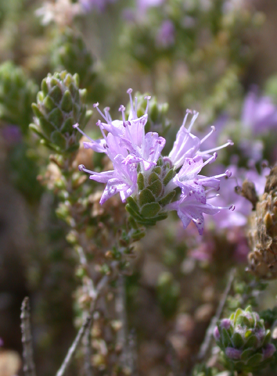 Tymbra capitata; sin. Thymus capitatus (L.) Lk. & Hoffm. (קורנית מקורקפת), Carmel beach, Israel, July 19, 2006. Also called Coridothymus capitatus (L.) Rchb.f.